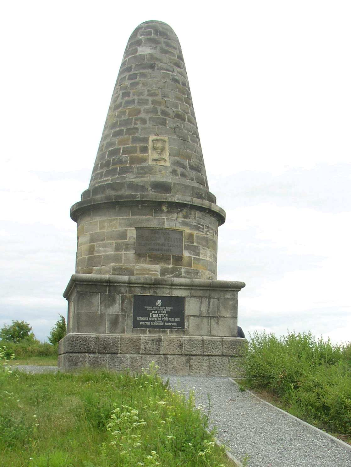 Memorial devoted to Battle of Lipany (1434) in Lipany near Český Brod (The Czech Republic)